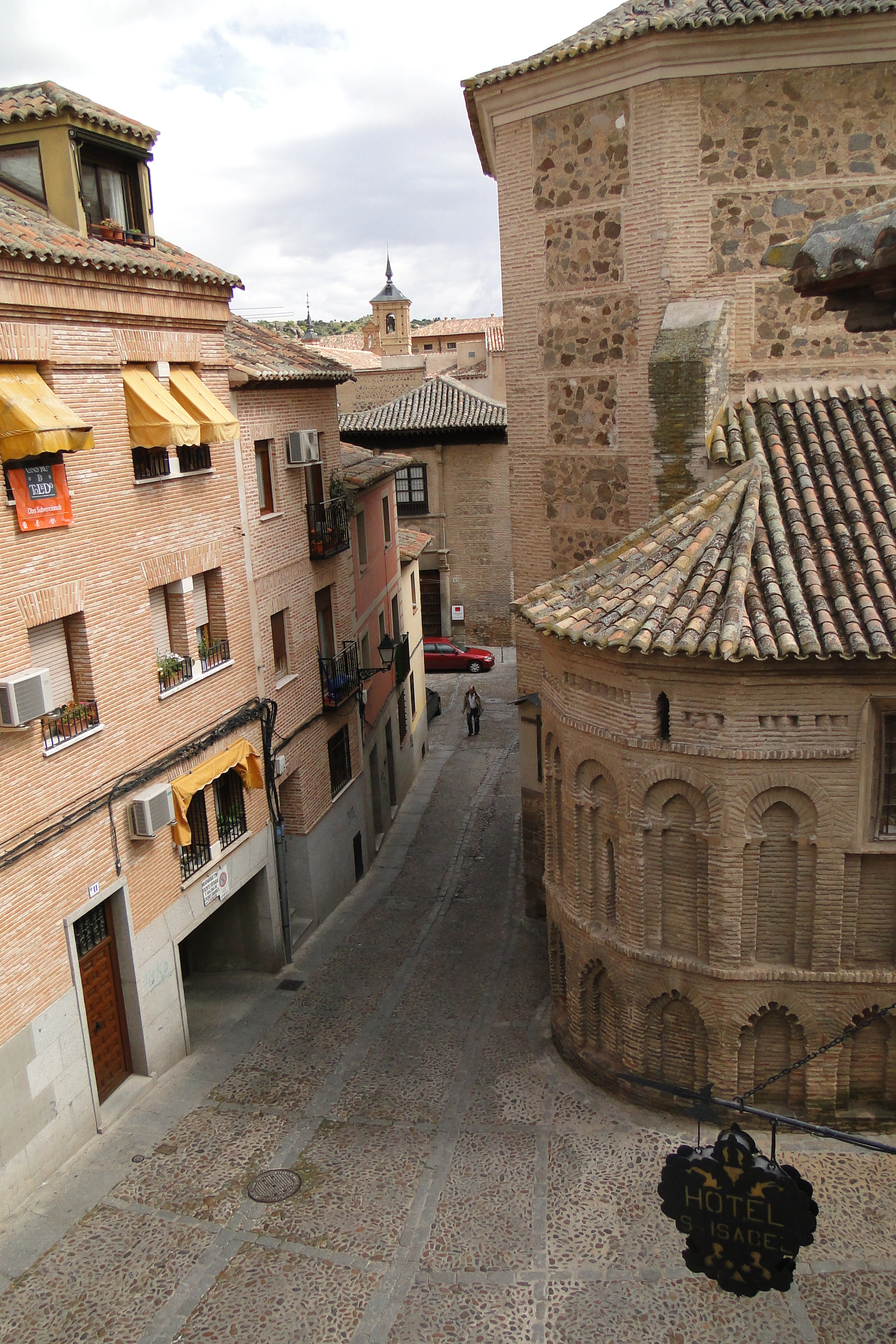 View from Balcony of Hotel Santa Isabel - Toledo - Spain